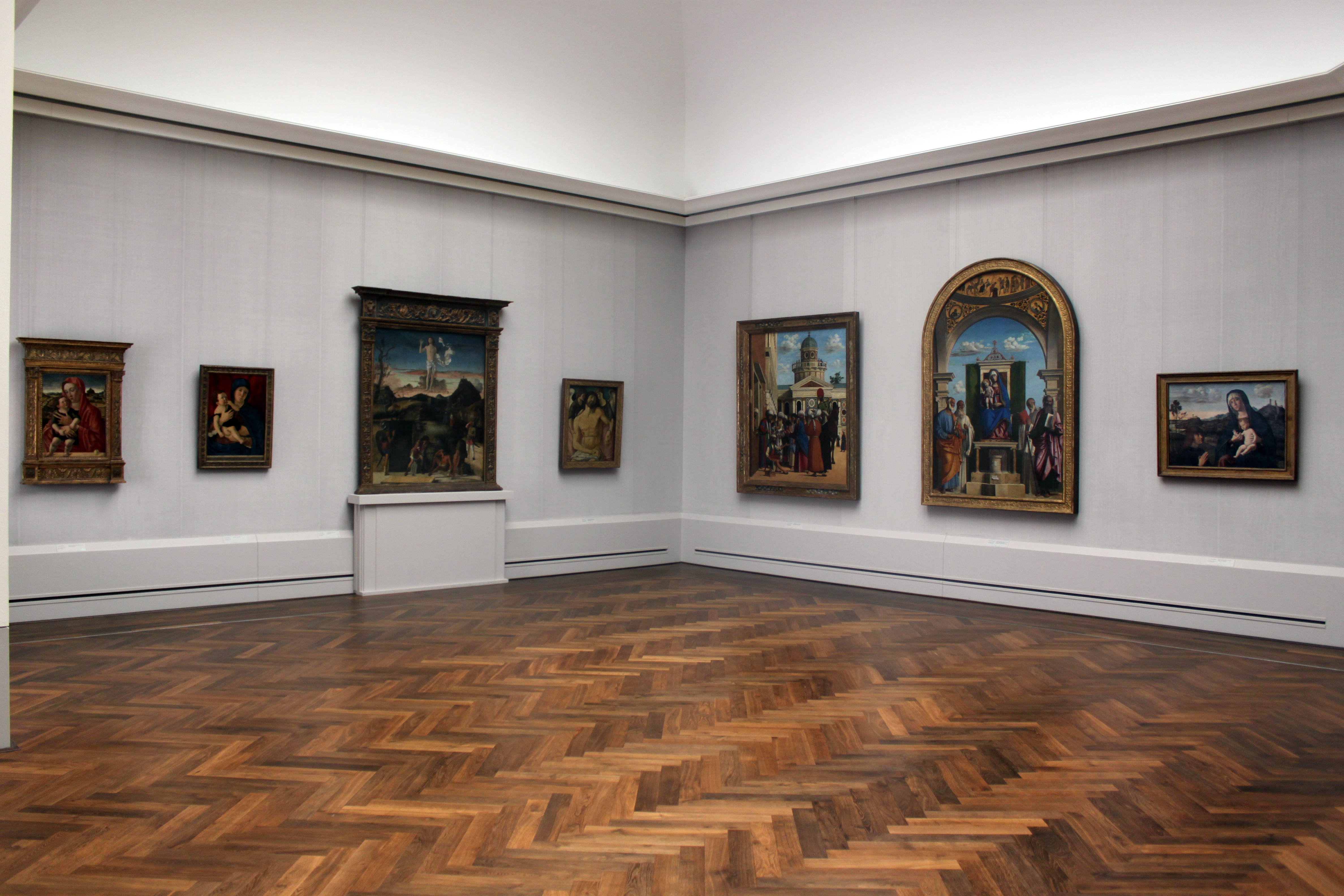 Gemäldegalerie Native nameGemäldegalerie der Staatlichen Museen zu BerlinParent institutionStaatliche Museen zu BerlinLocationBerlinCoordinates52° 30′ 31″ N, 13° 21′ 52.99″ E Established1830Web pagesmb.museumAuthority control : Q165631 VIAF: 139597962 ISNI: 0000 0001 2097 4783 LCCN: n94003740 OSM: 3626233 GND: 806975-X WorldCat institution QS:P195,Q165631 room 37 from left: Bellini, Madonna with Child